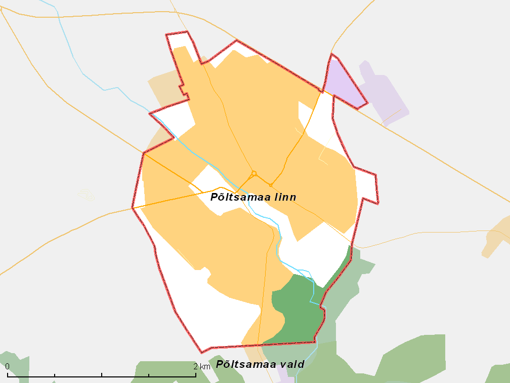 Map of municipality in Estonia